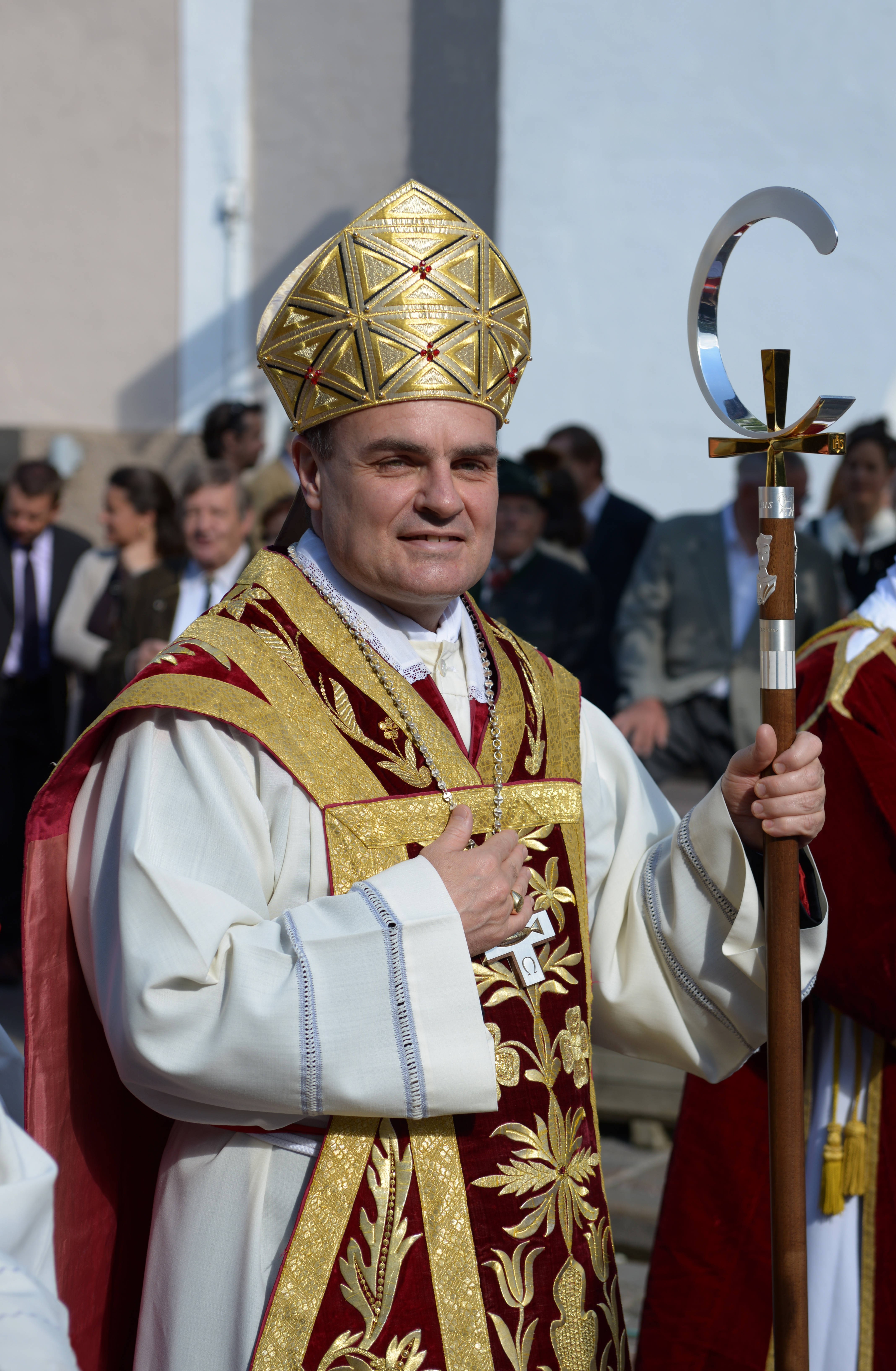 Bishop Ivo Muser in St. Ulrich in Gröden with pontifical vestments (mitre, pectoral cross,episcopal ring, and crosier)